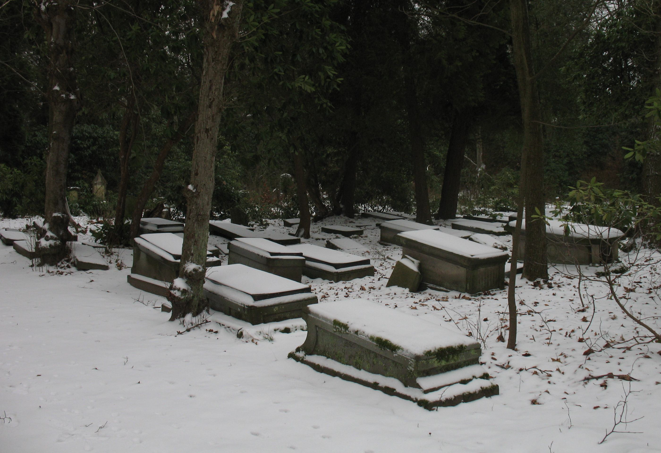 Ohlsdorf Jewish Cemetery in Hamburg-Ohlsdorf, Germany